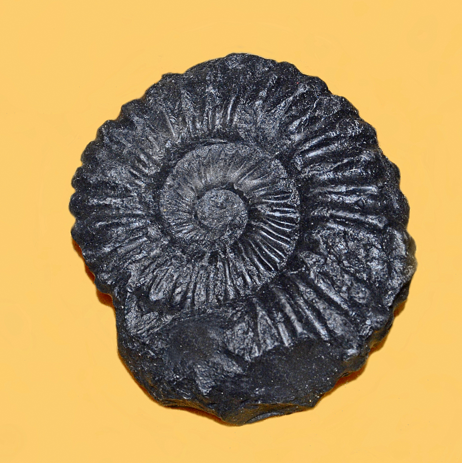 Fossil of Lyelliceras lyelli from Peru